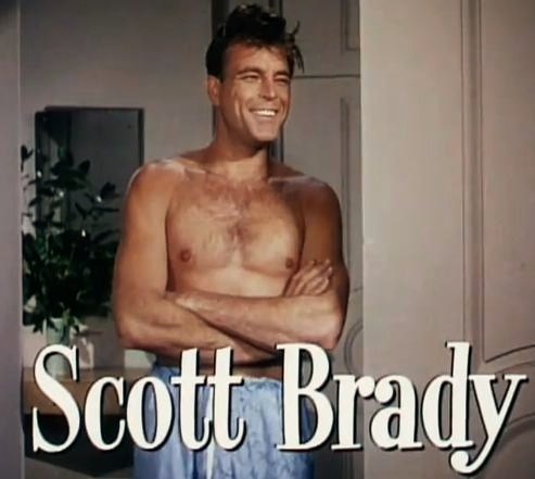 Scott Brady in Bloodhounds of Broadway - trailer (cropped screenshot)